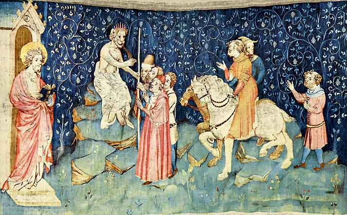 The number of the Beast, (Tapestry of the Apocalypse); Angers, France